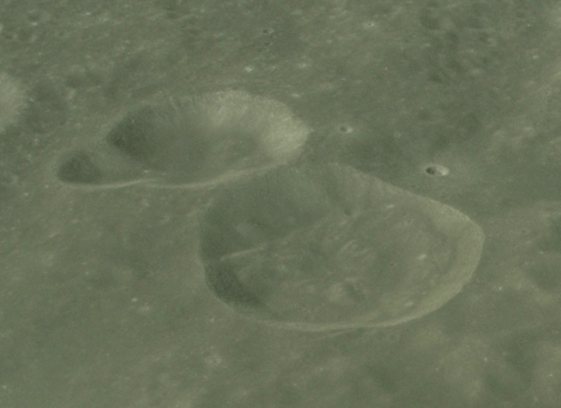 Oblique view of Auzout crater and Van Albada crater, on the moon.